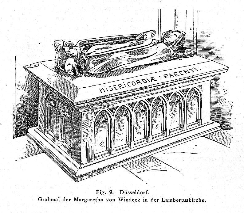 St.Lambertus, Düsseldorf-Altstadt, Grabmal der Margaretha von Windeck .jpg